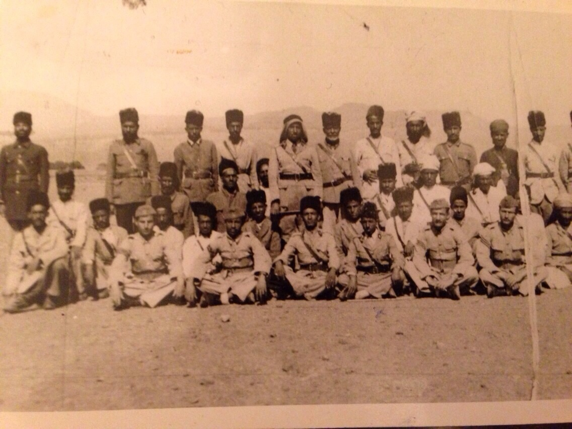 Ahmed Al-thulaia later the leader of the Yemeni revolution 1955 between his Yemeni officers and their Iraqi trainers in Iraq 1947 among them Khaleel Jassim Al-Dabbagh (the first raw on the left ) later a famous Iraqi army figure 60's.